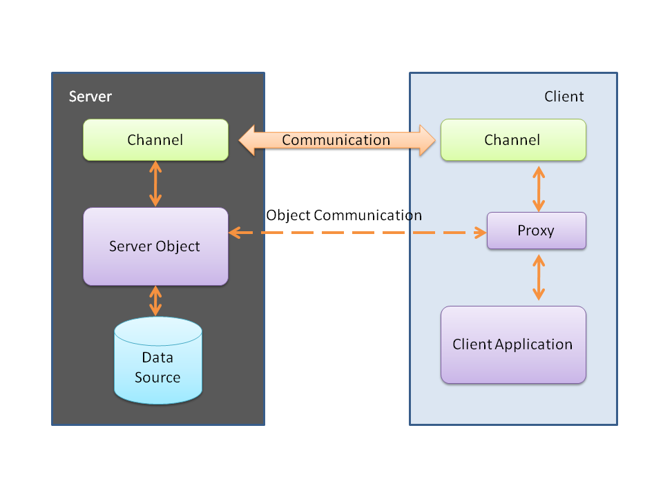 .NET Remoting Application Architecture